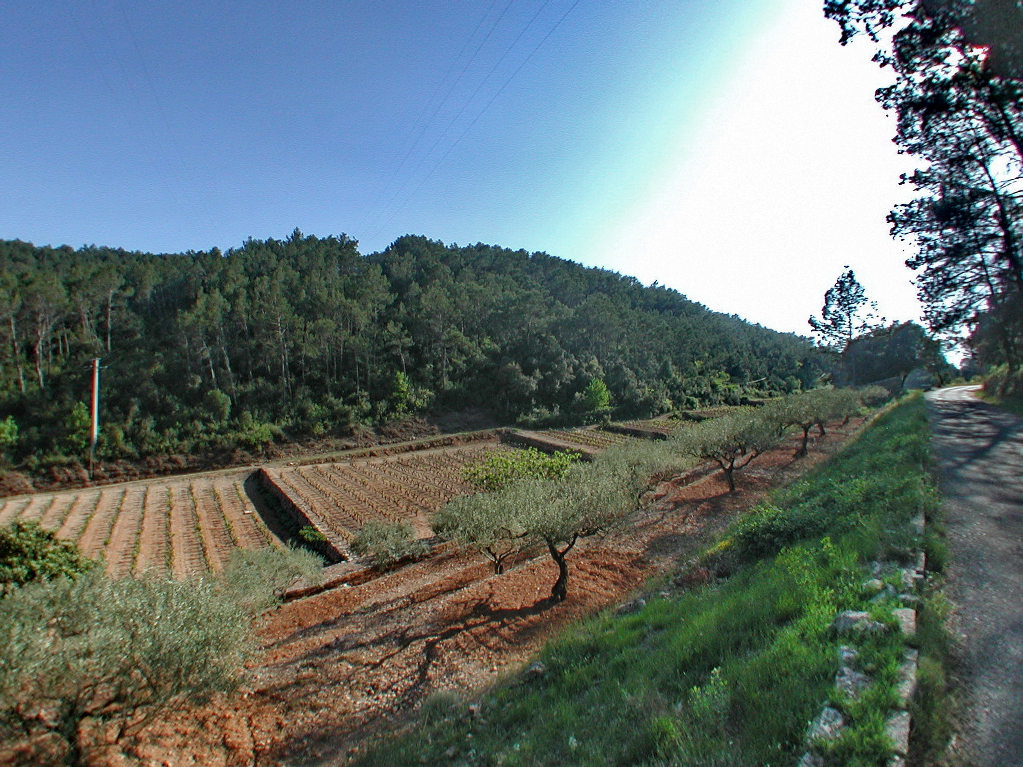 "recavade" : a drystone wall across a dale